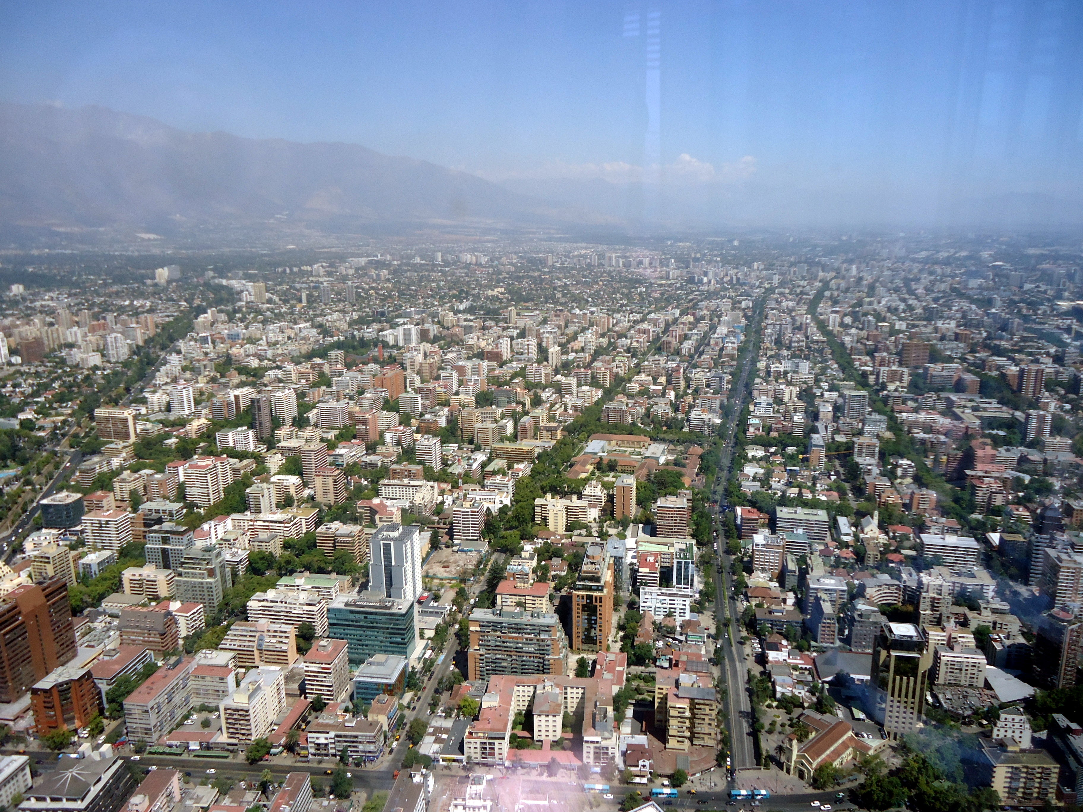 View of the south-east suburbs of Santiago de Chile from the watching deck of the Gran Torre Santiago.